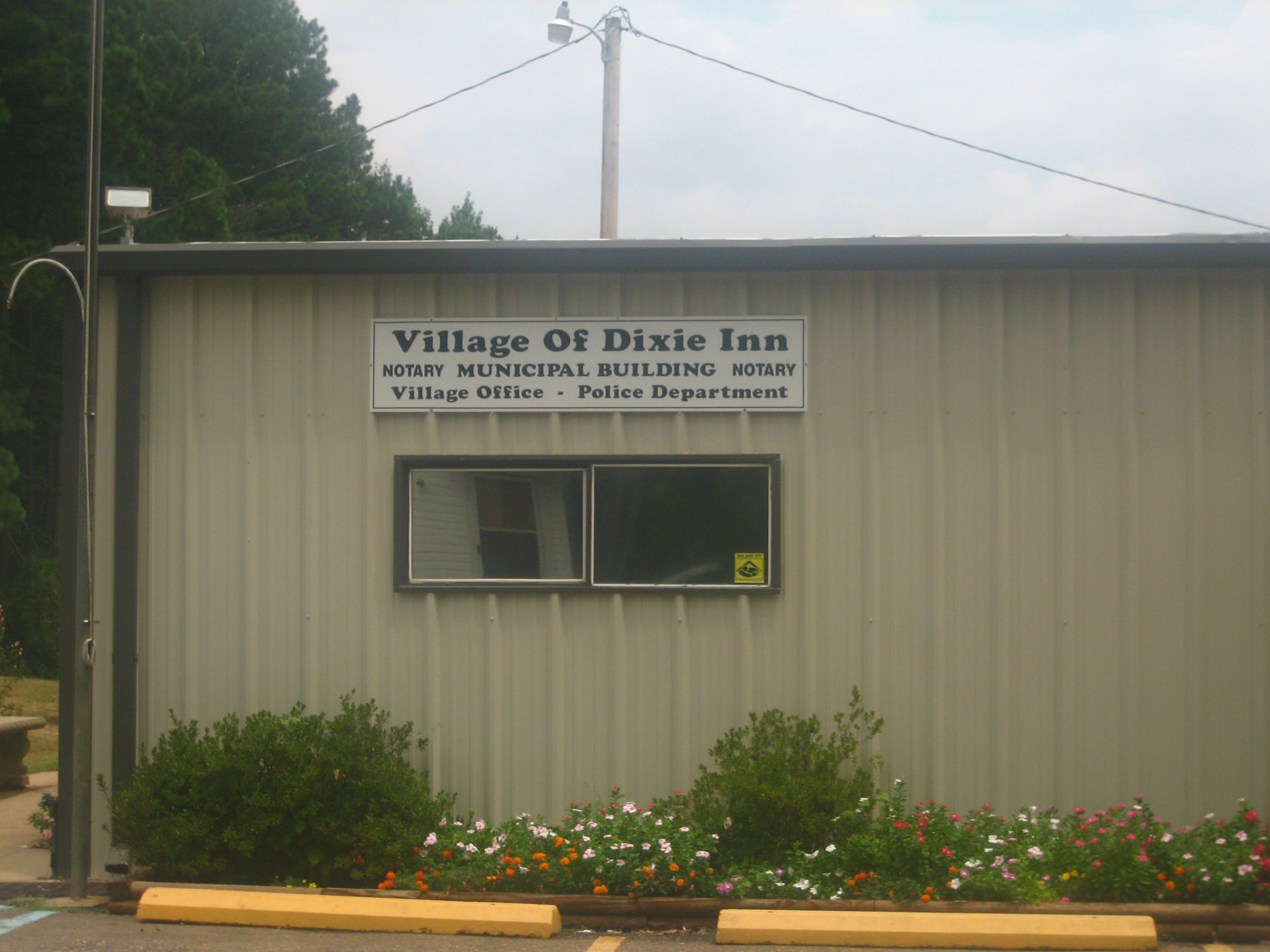 I took photo on Aug. 8, 2008.Billy Hathorn (talk) 15:43, 23 August 2008 (UTC)